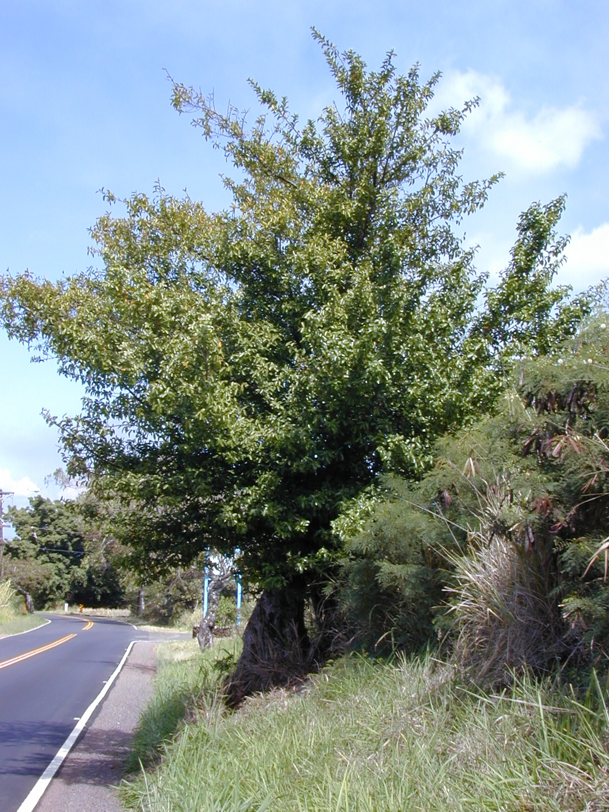 Sideroxylon persimile (small tree). Location: Maui, Maunaolu